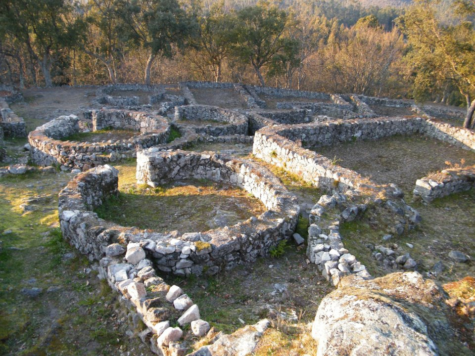 Vista parcial de Castro de Romariz.